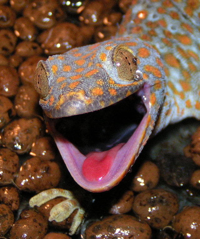 Gekkon